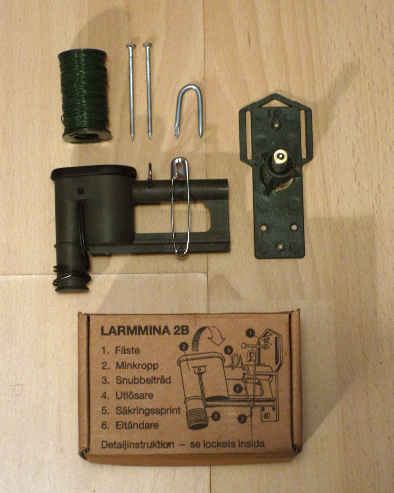 Swedish flare-mine Larmmina 2B.